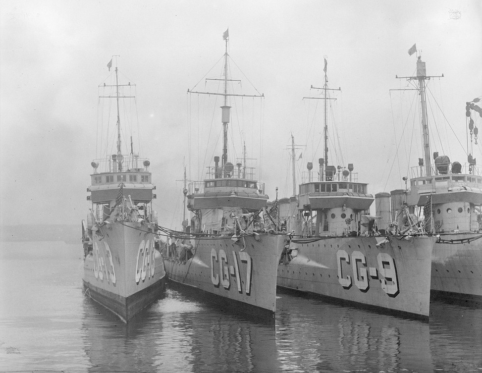 Circa 1924-1930 on Coast Guard service. (L-R) USCG Jouett (CG-13) ex. (DD-41), USCG Paulding (CG-17) ex. (DD-22) and USCG Beale (CG-9) ex. (DD-40).